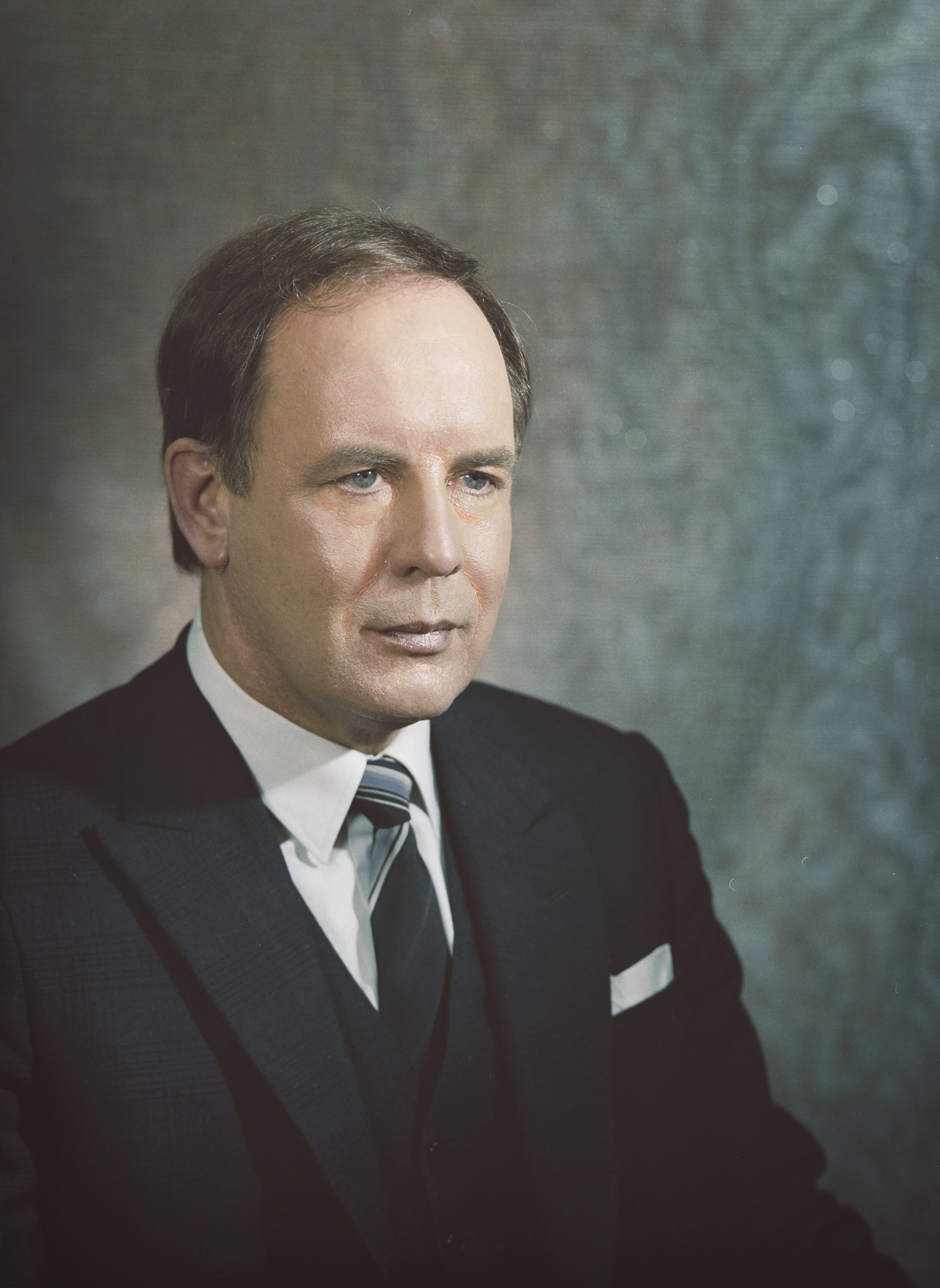 Photograph of the Finnish industrialist Magnus von Bonsdorff (1934–).